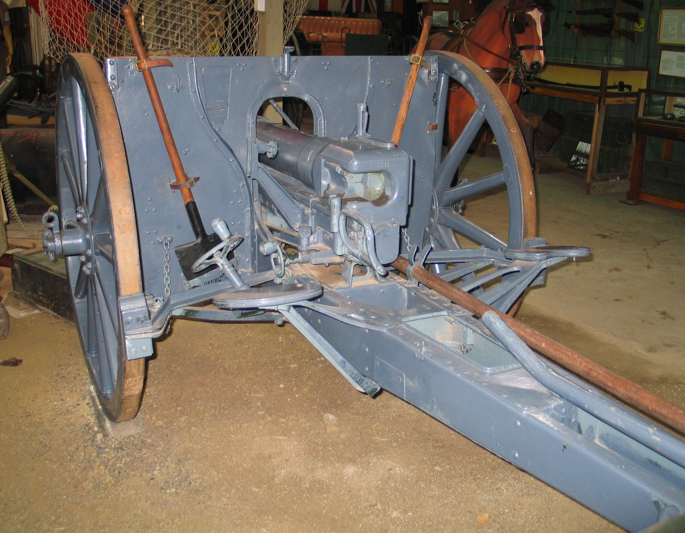 7,7 cm Feldkanone 96 neuer Art (7,7 cm FK 96 n.A.) in Light Horse and Field Artillery Museum, Nar Nar Goon, Victoria, Australia.